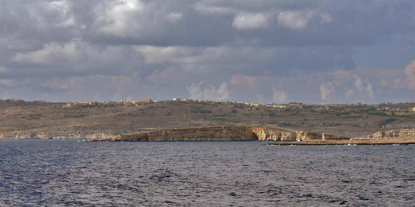 Panoramic view of the island of Kemmunet (Cominotto) in Malta